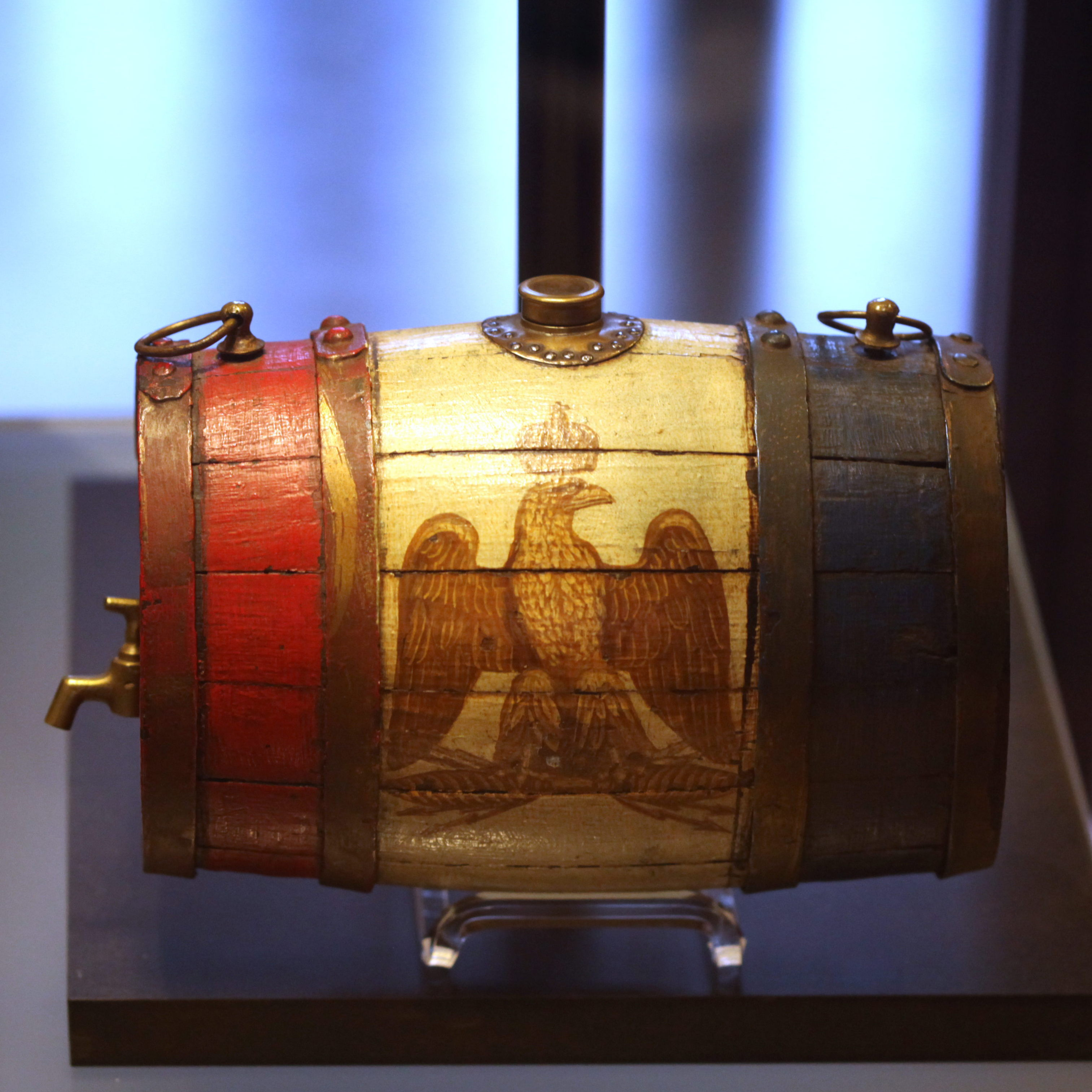 Alcohol barrel, First Empire. On display at Sion History museum.